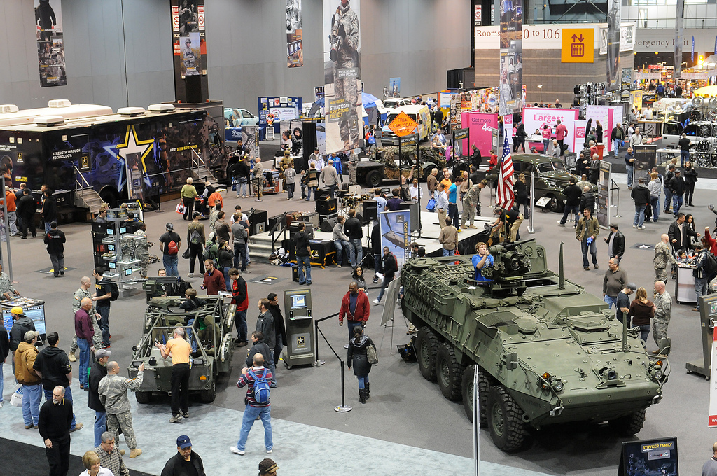 The Army is participating in the Chicago Auto Show 2012. The show runs through next Feb. 19th at the McCormick Place Convention Center. The U.S. Army has several exhibits including two concept lightweight, diesel-electric hybrid prototypes; and for the first time, General George Patton's 1938 Cadillac Staff car from the Patton museum at Fort Knox, Kentucky.